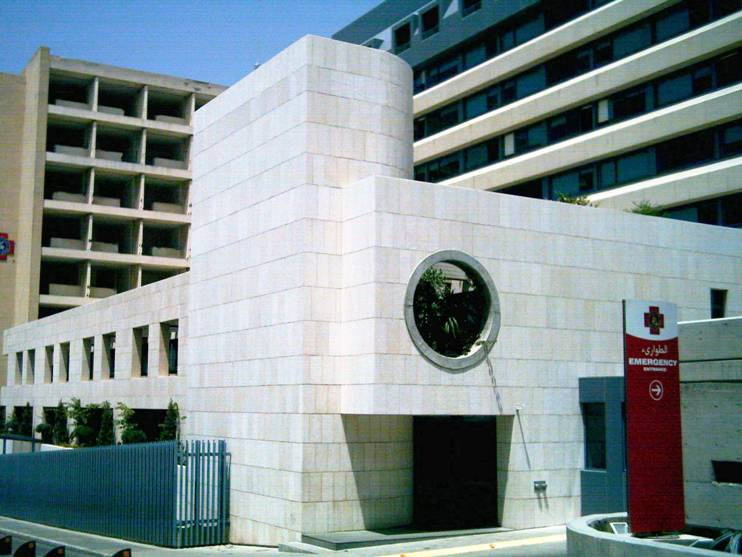 Saint George Hospital in Beirut